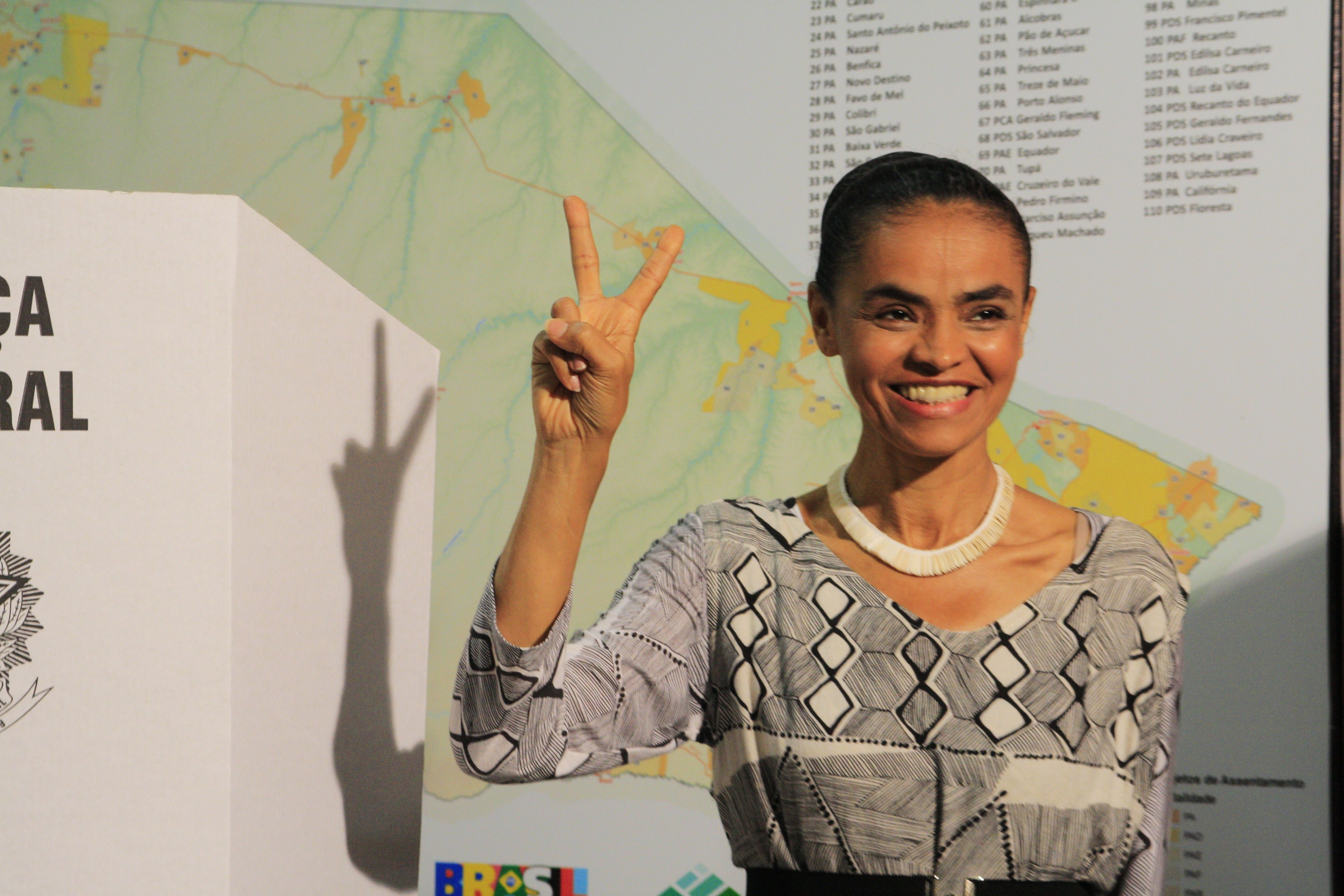 Marina vai votar no segundo turno, no Acre.